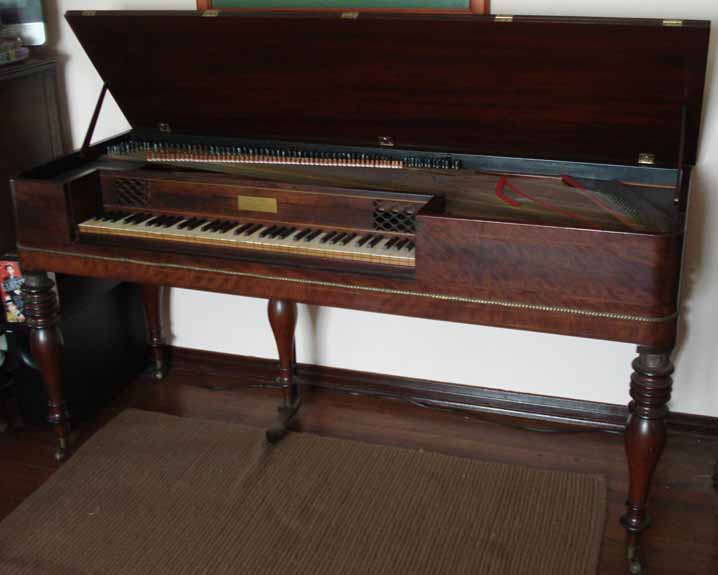 Square grand piano circa 1806(aprox) Made by A. Babcock for G.D. Mackay Boston #74